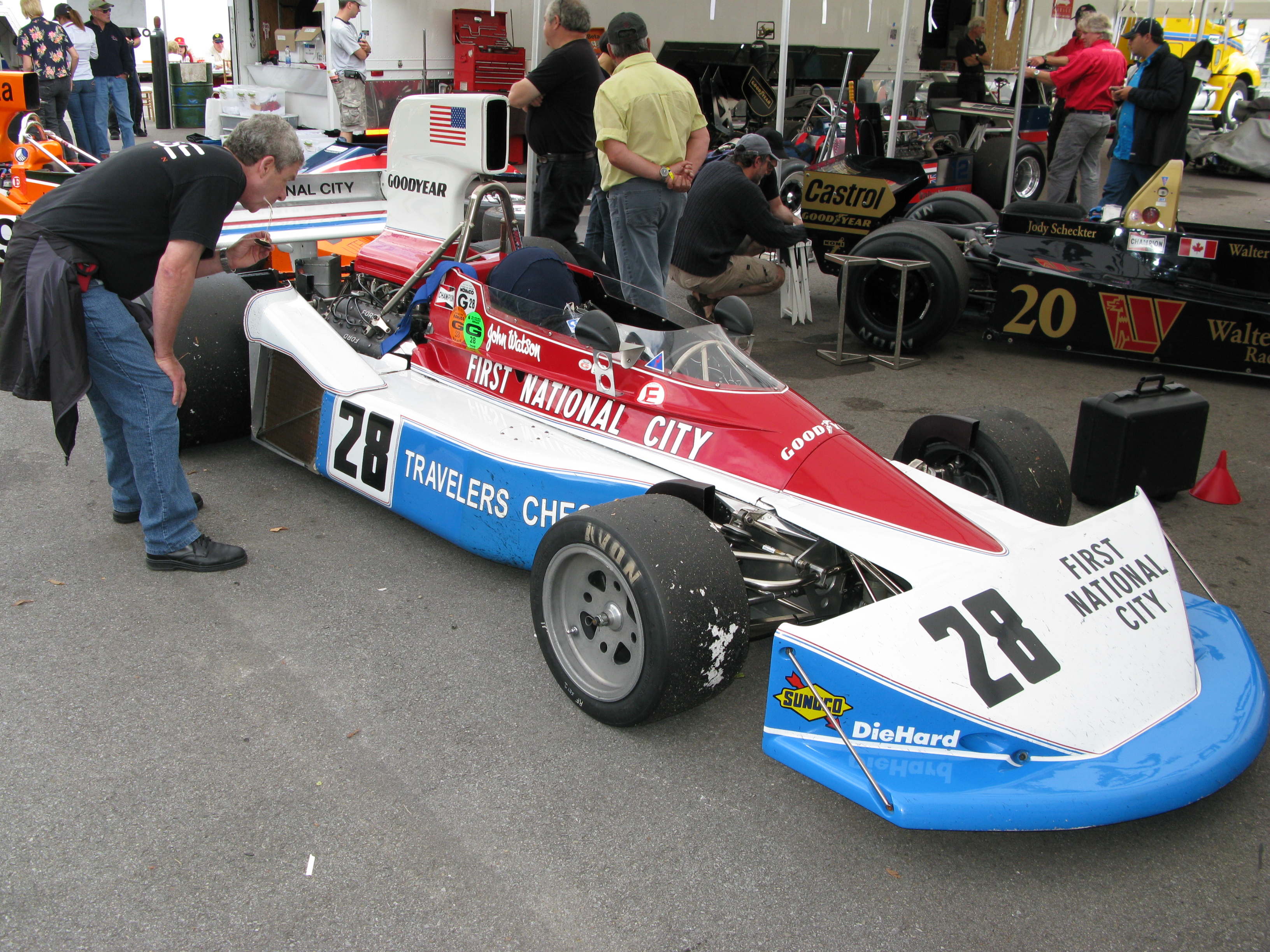 A spectator inspects the Cosworth DFV in the back of the Penske PC3 Formula One car. Pictured in the paddock at the Sommet des Légends race meeing, Circuit Mont-Tremblant, Quebec, Canada. July 2009.